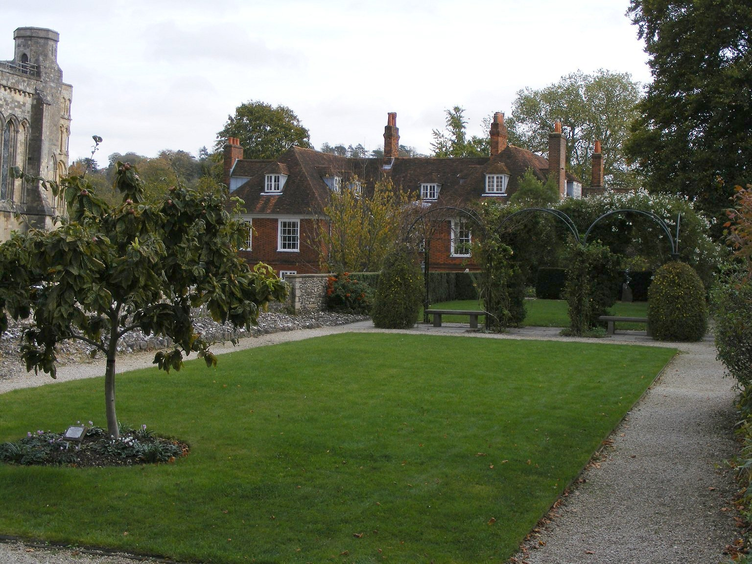 Picture of the Dean Garnier garden in Winchester, Hampshire